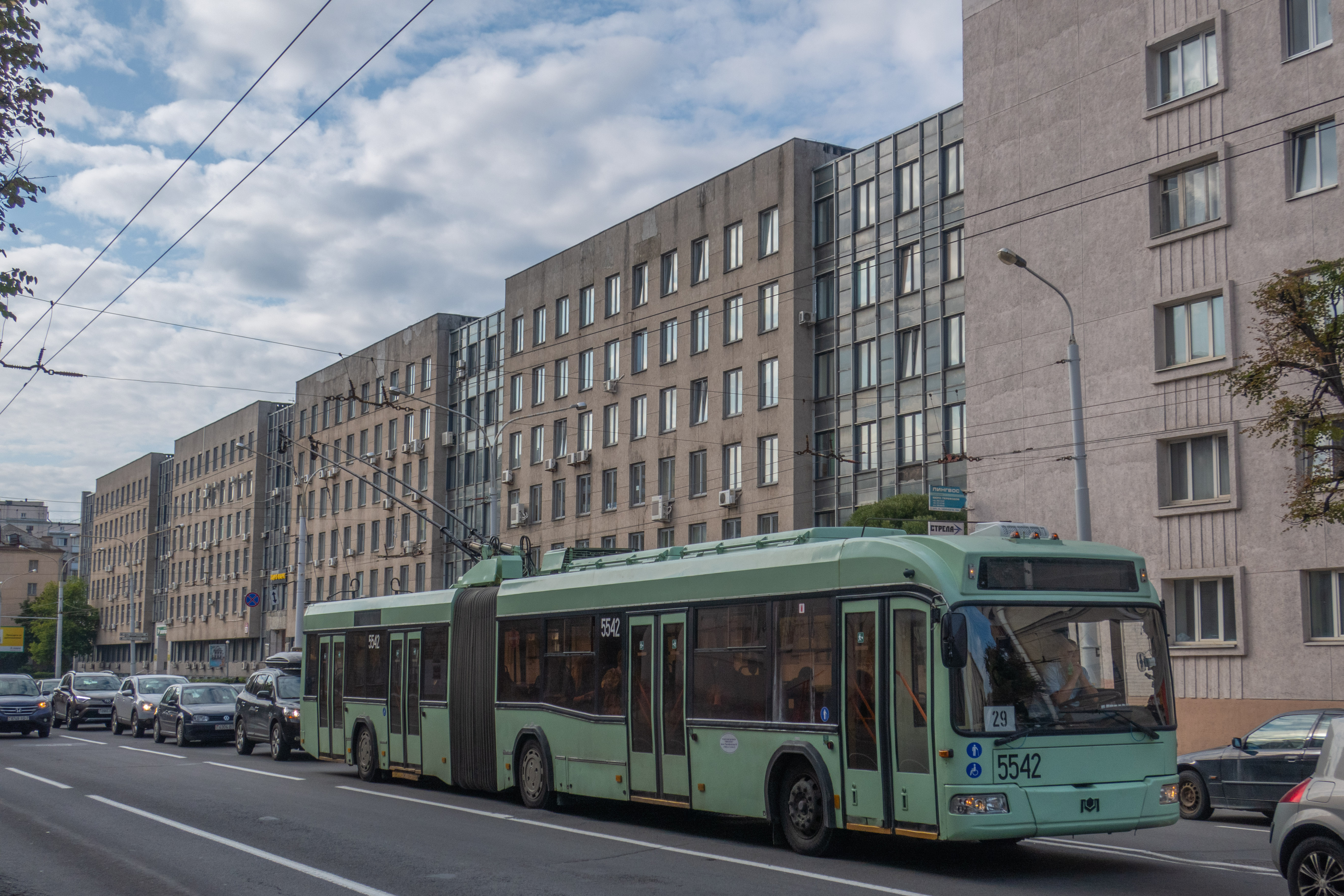 Surhanava street. Minsk, Belarus